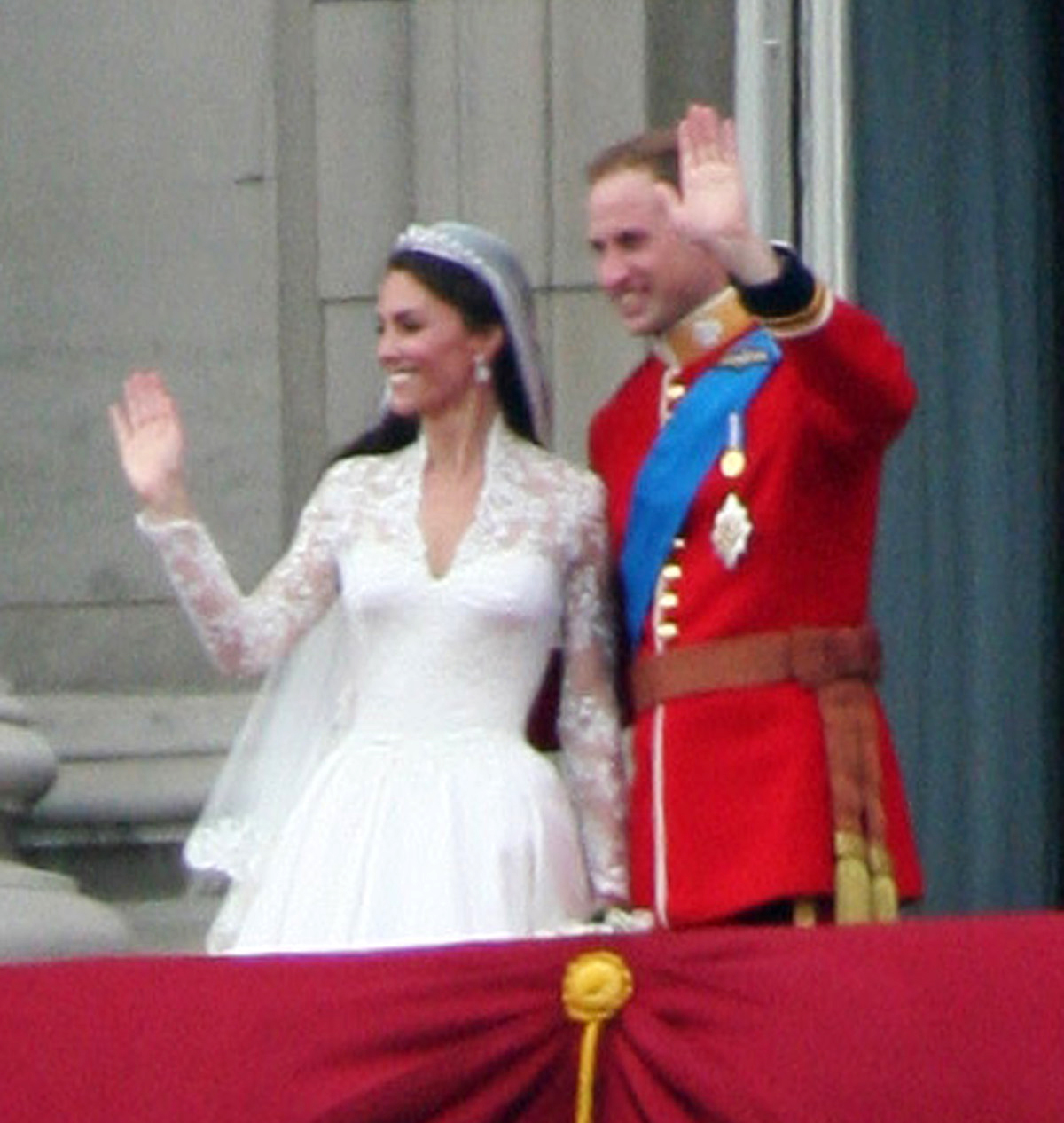 A photograph of Prince William of Wales and Catherine, the Duchess of Cambridge, waving from the balcony of Buckingham Palace after their wedding.